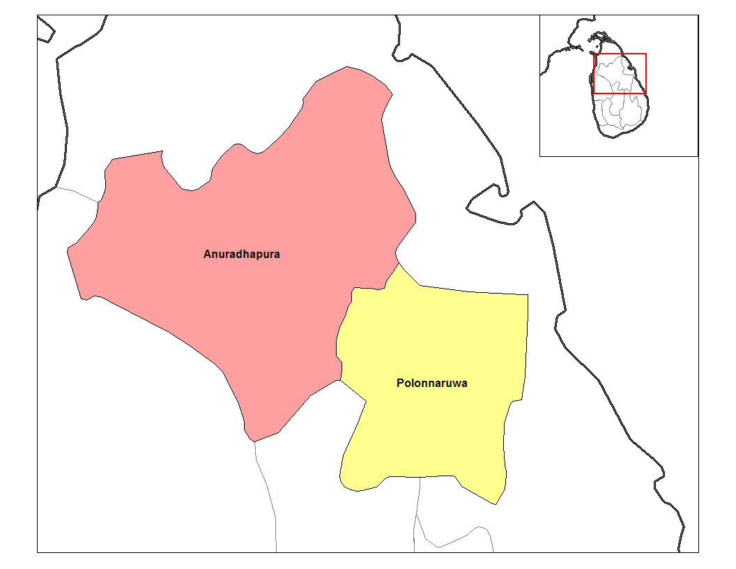 Map of the districts of North Central province in Sri Lanka. Created by Rarelibra 12:56, 19 September 2006 (UTC) for public domain use, using MapInfo Professional v8.5 and various mapping resources.